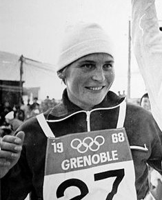 Soviet cross-country skier Galina Kulakova at the 1968 Winter Olympics in Grenoble, France.